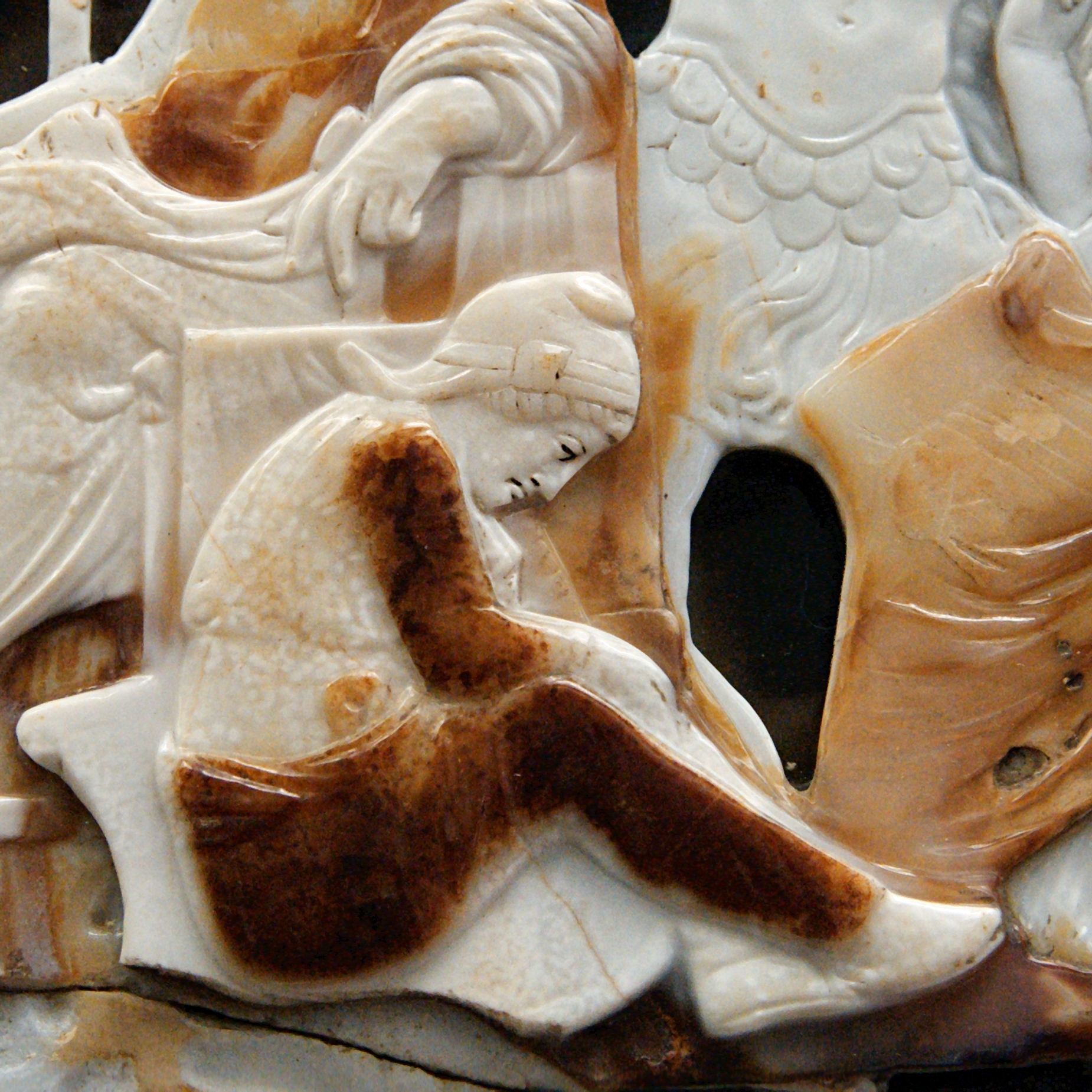 Parthian prisoner wearing a Phrygian cap, detail of the so-called Great Cameo of France. Five-layered sardonyx cameo, Roman artwork, second quarter of the 1st century AD.